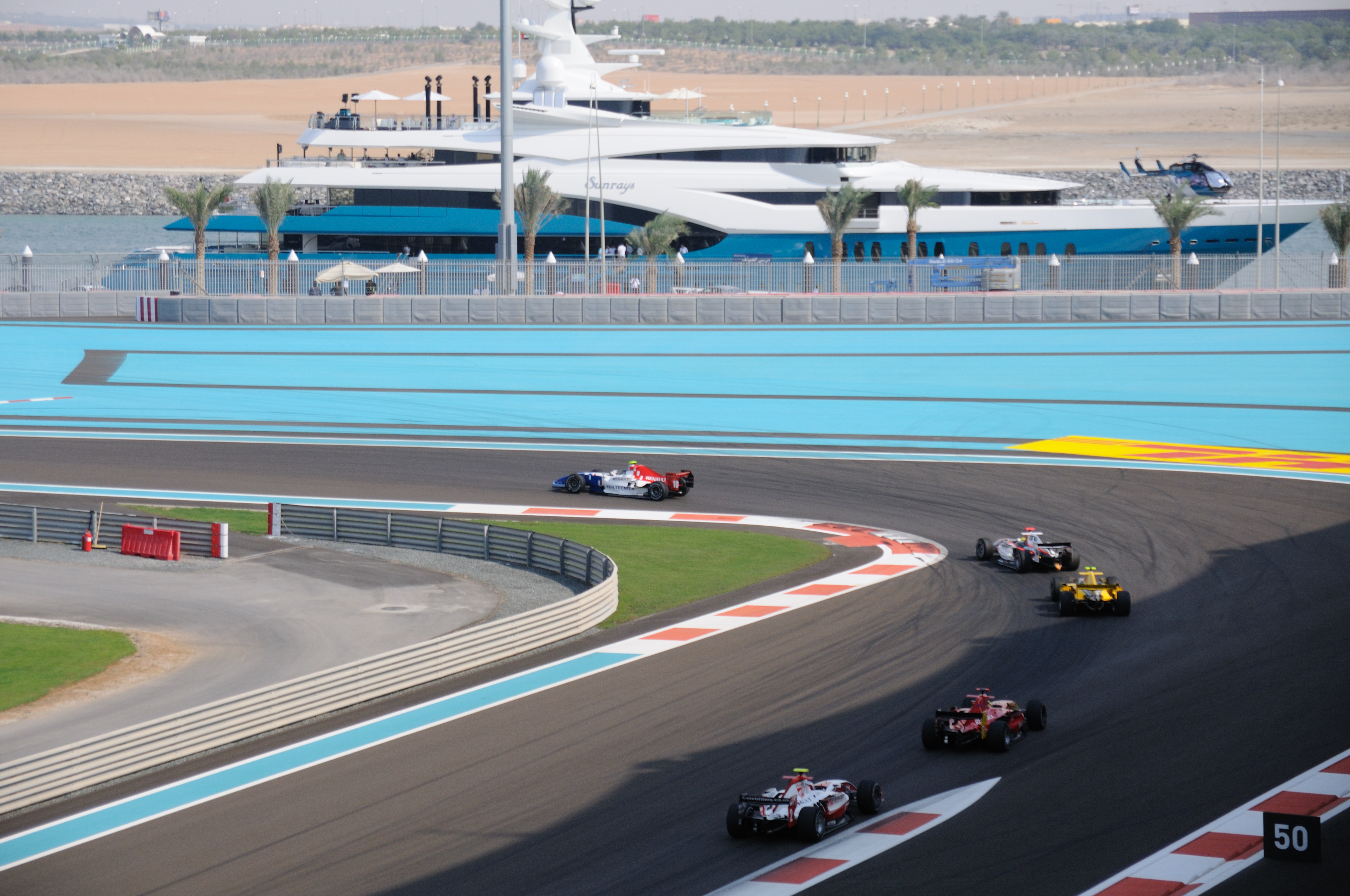 The 2011 non-championship GP2 Series Final at Yas Marina Circuit, Abu Dhabi.